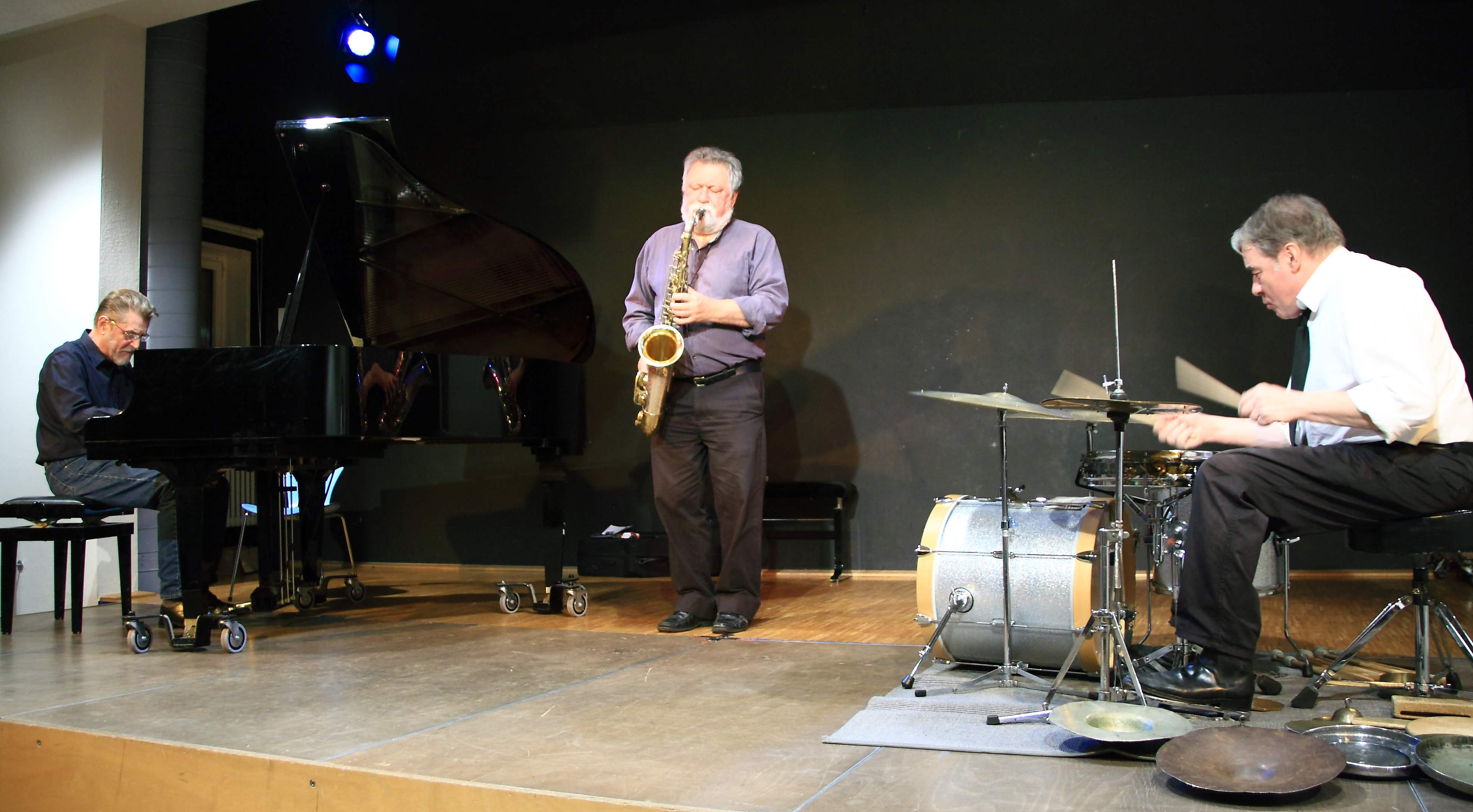 Alexander von Schlippenbach, Evan Parker and Paul Lovens (ltr) at Kult, Niederstetten. Concert on the occasion of 40 years Schlippenbach-Trio and Club W71.